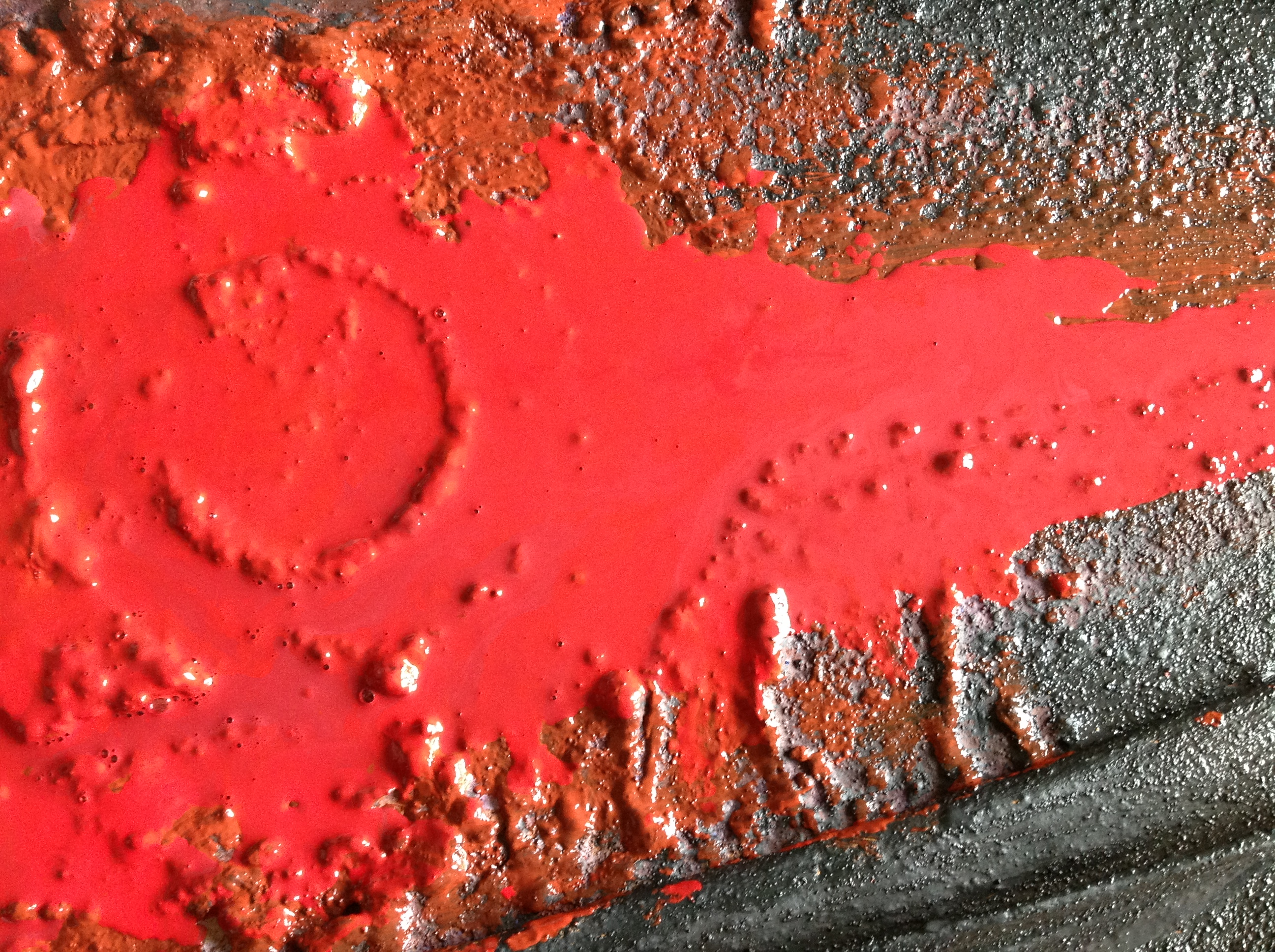 Jiménez-Balaguer Detail 2013